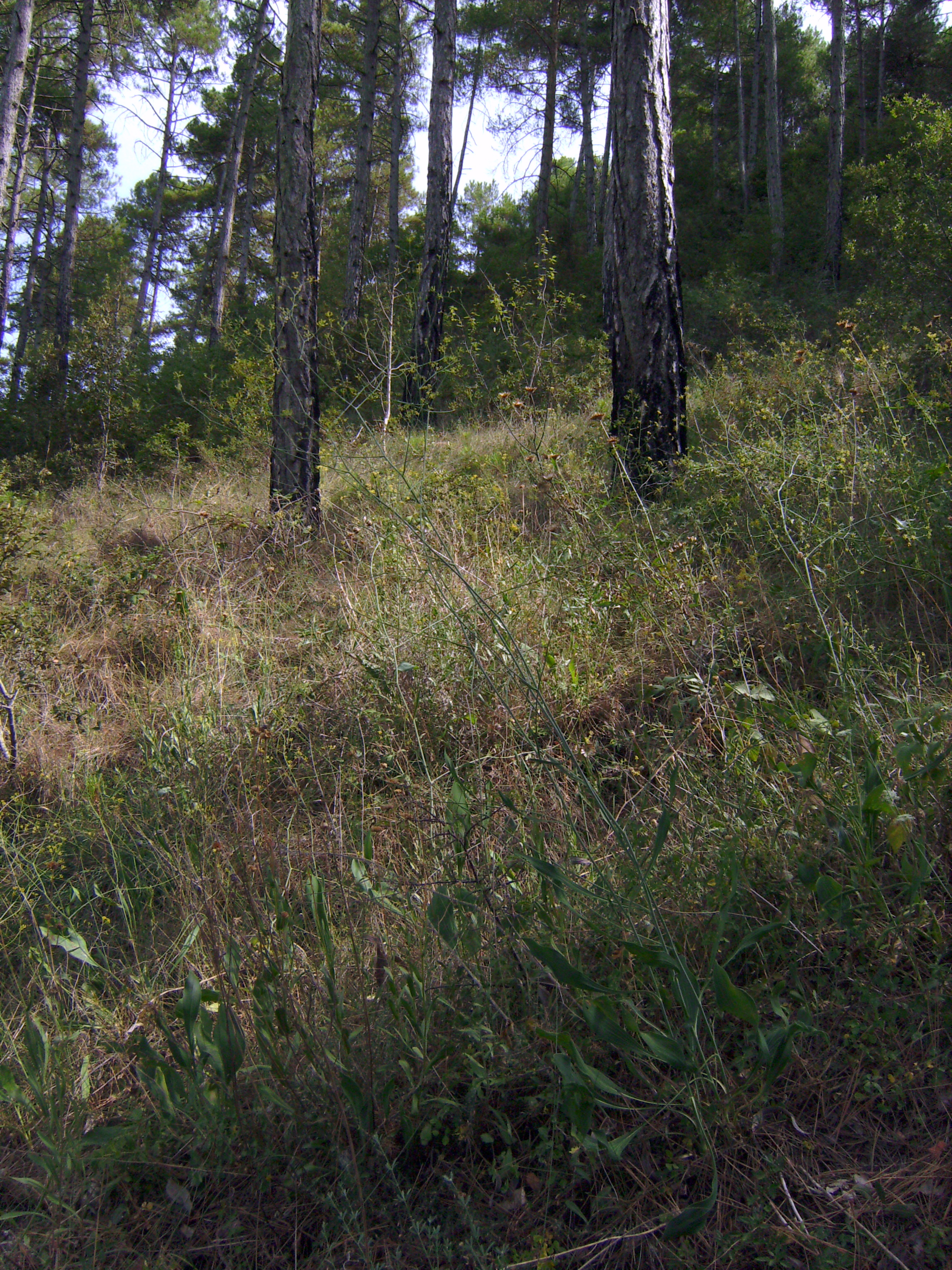 Bupleurum rigidum, several flowering plants, Castelltallat, Catalonia